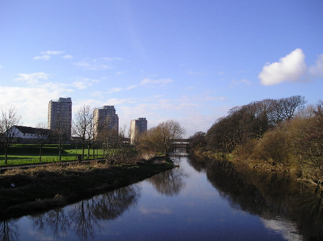 High Rise. Tower Blocks on the banks of the River Irvine in Irvine Town Centre.